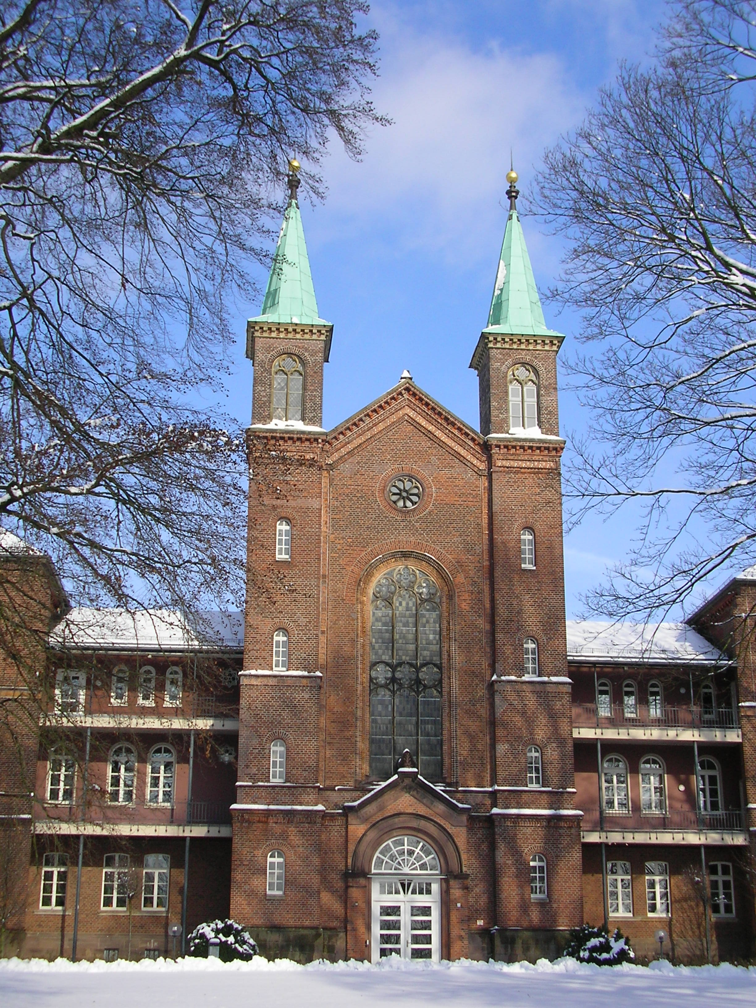 Lengerich - LWL-Hospital